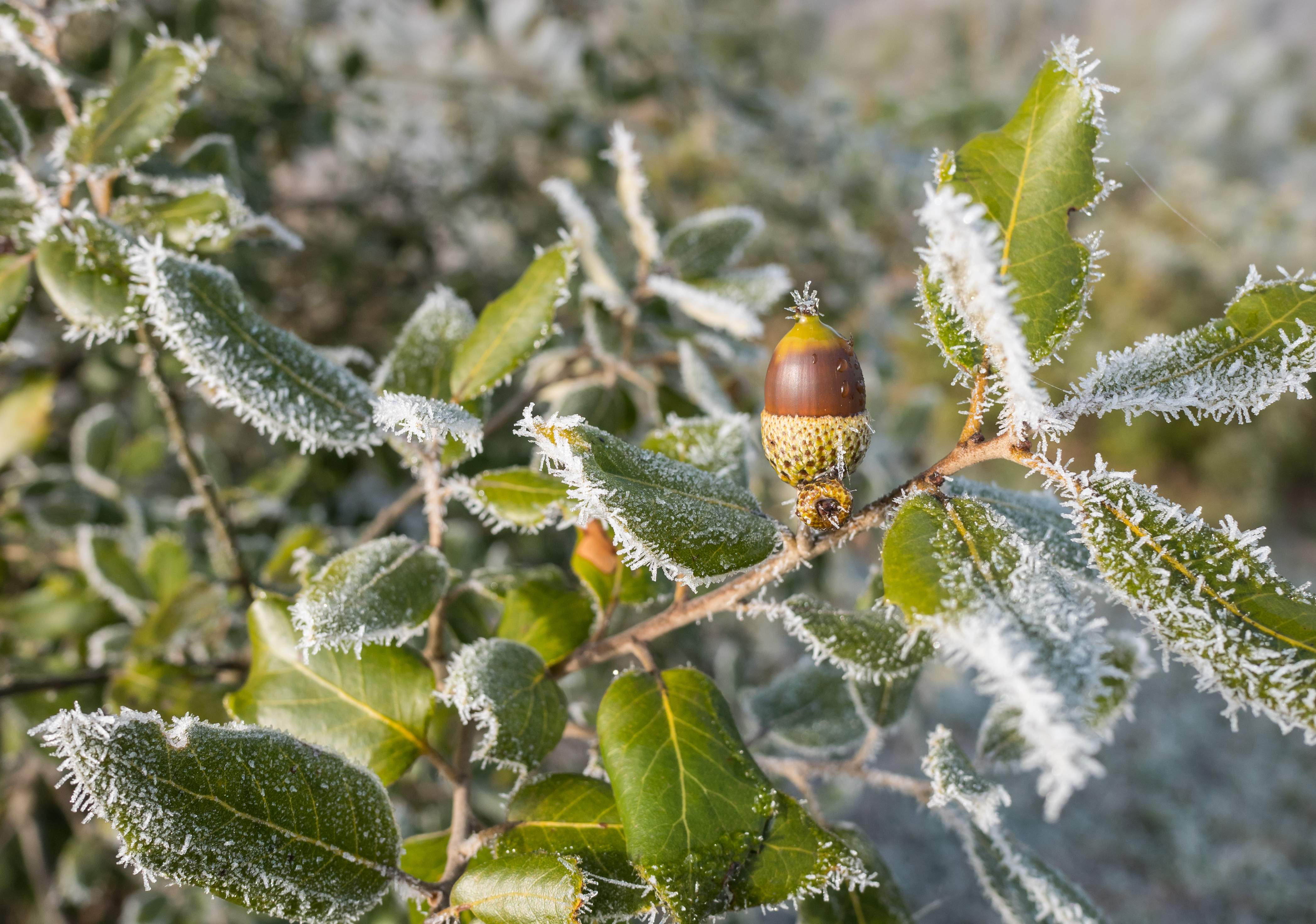 Holm oak acorn in the Botanical Garden of Olarizu. Vitoria-Gasteiz, Basque Country, Spain